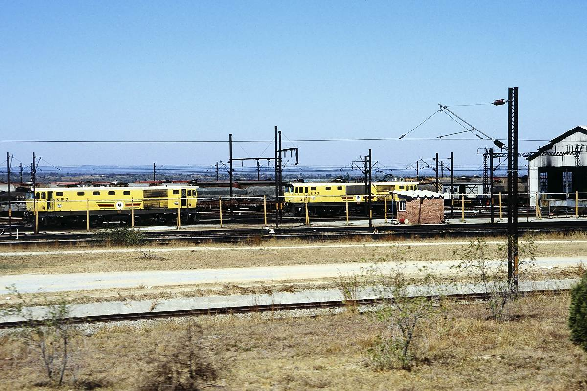 Two electric locomotives at Gweru locomotive depot